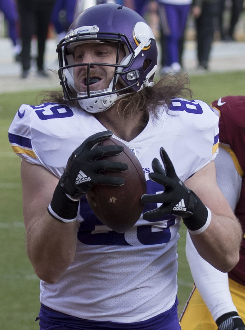 David Morgan of the Minnesota Vikings scores a touchdown in a game against the Washington Redskins at FedExField on November 12, 2017 in Landover, Maryland.